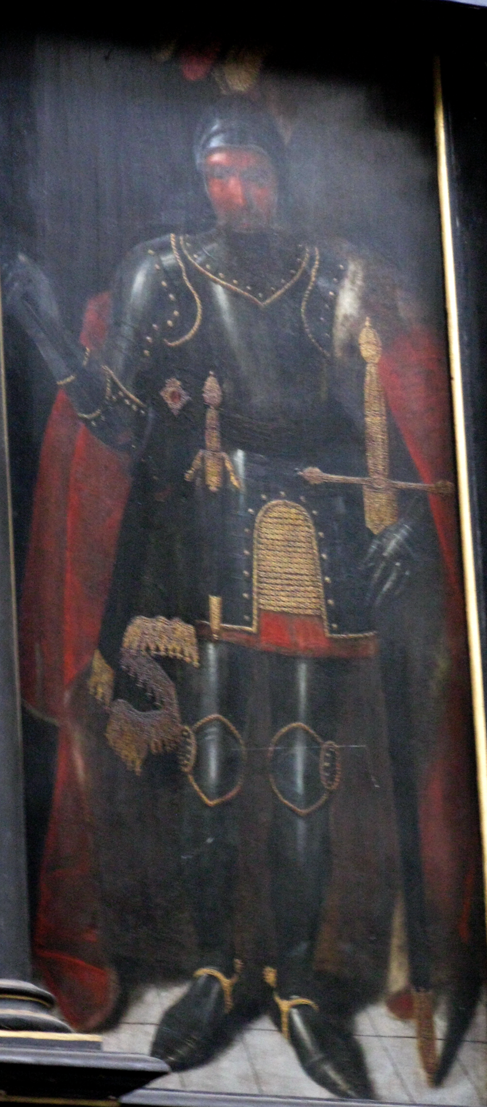 Swantopolk II, Duke of Pomerania from a group of pictures showing the benefactors of Oliwa cloister